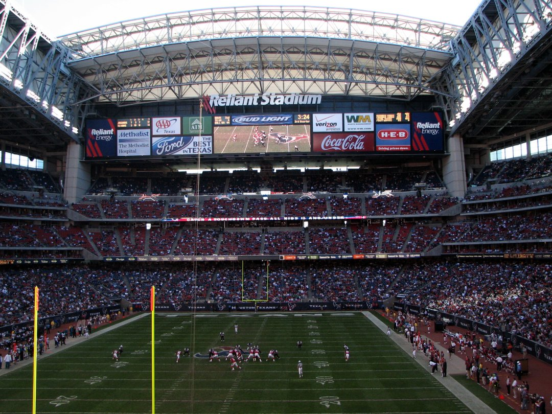 Digital photo taken by user TexansBlue, December 24, 2005 Houston, Texas